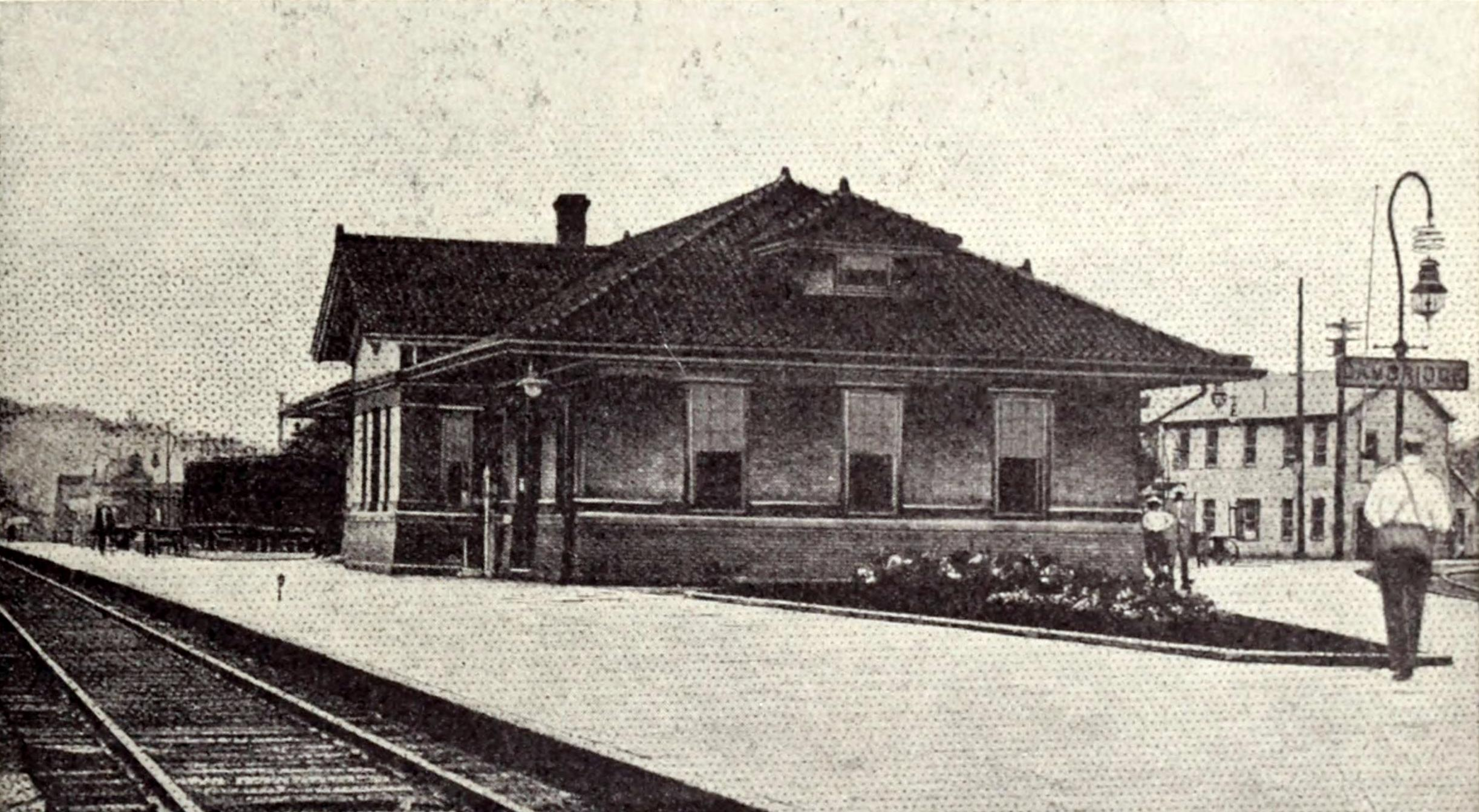 Photograph of Union Station in Cambridge, Ohio, that appeared in Baltimore & Ohio Employes Magazine, March 1914, Vol. 02 No. 06, Page 83